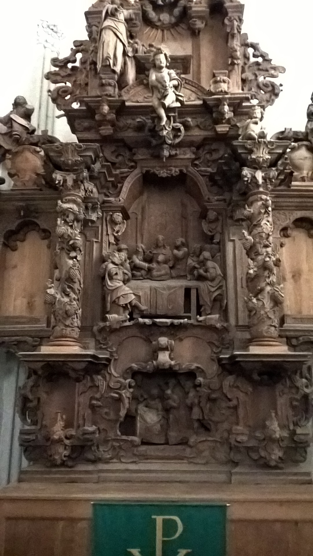 Carved altar of Hans Gudewerdt der Jüngere in the Klosterkirche Preetz